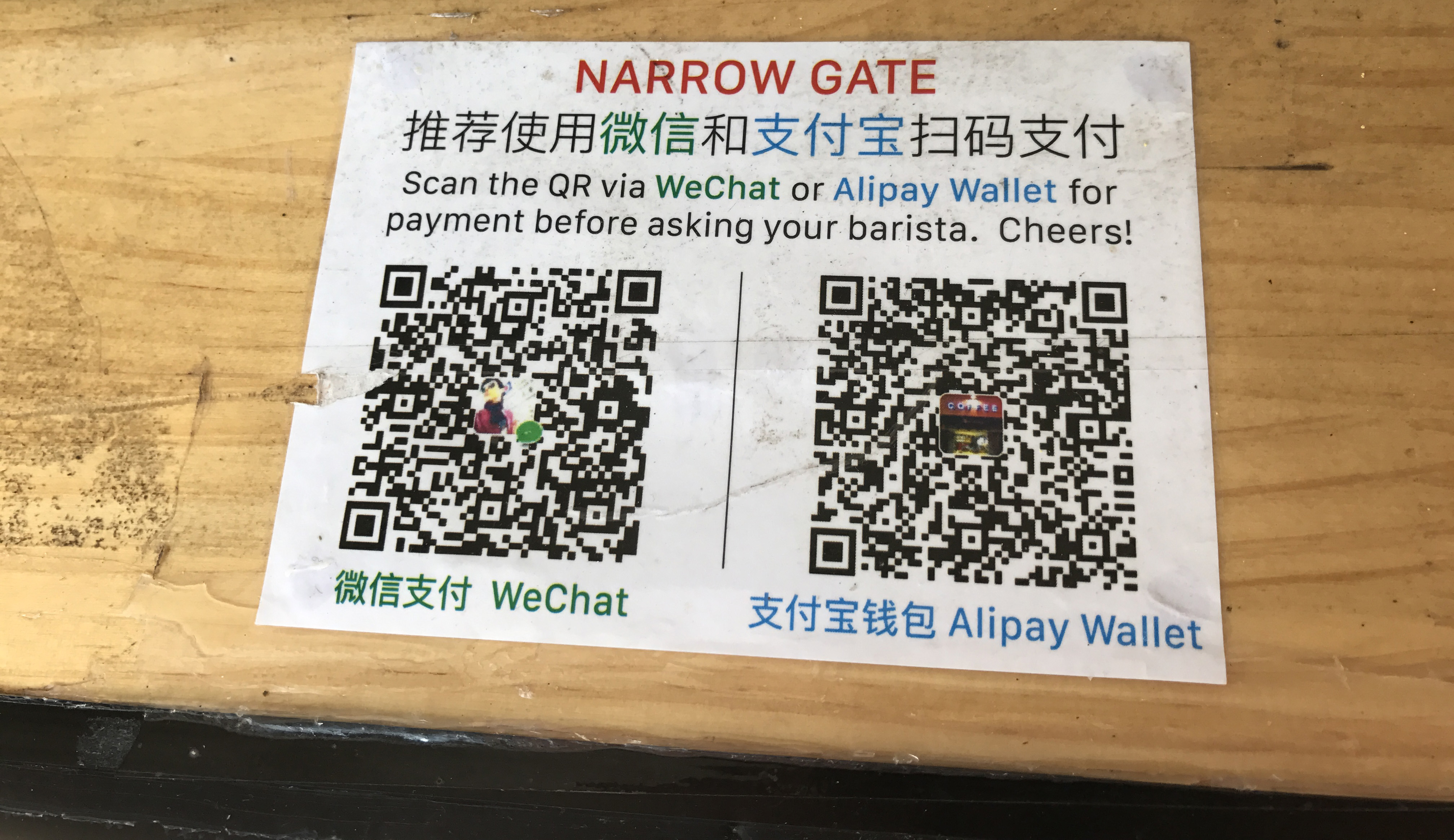 WeChat / Weixin, Alipay Wallet